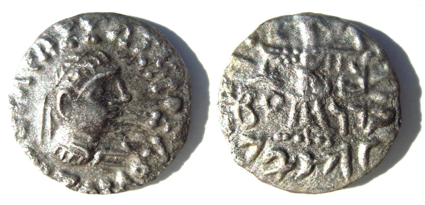 Coin of Zoilos II. Personal photograph 2006.